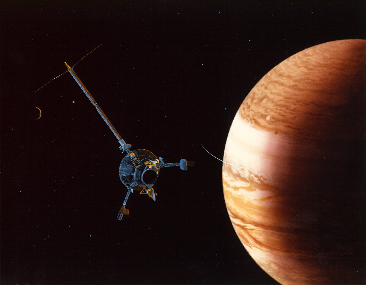 This artist's rendering shows the Galileo orbiter arriving at Jupiter on Dec. 7, 1995. A few hours before arrival, the orbiter will have flown within about 1,000 kilometers (600 miles) of Jupiter's moon lo, shown as the crescent to the left of the spacecraft. The sun is visible between Io and the spacecraft, near the spacecraft's long magnetometer. Jupiter is to the right. A faint white streak above the planet's clouds shows the atmospheric probe beginning to decelerate before it deploys a parachute for its scientific mission to collect data. About an hour after the probe mission, Galileo fired its rockets and entered orbit around Jupiter. The mission ended on Sept. 21, 2003, when the orbiter was deliberately destroyed in Jupiter's crushing atmosphere.